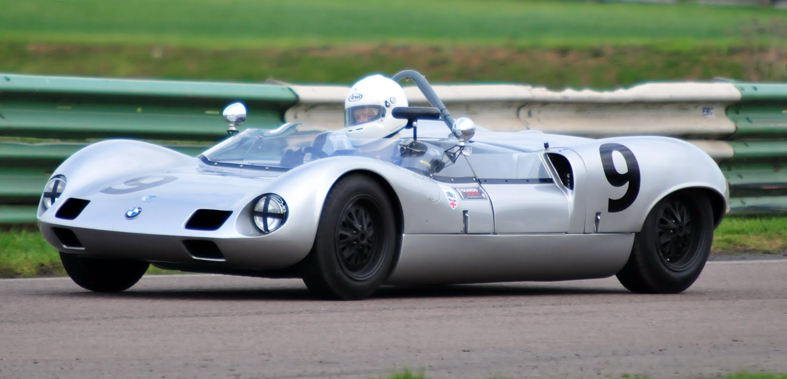 A Mark VIII Elva BMW sports car, being tested at Mallory Park, October 2009.